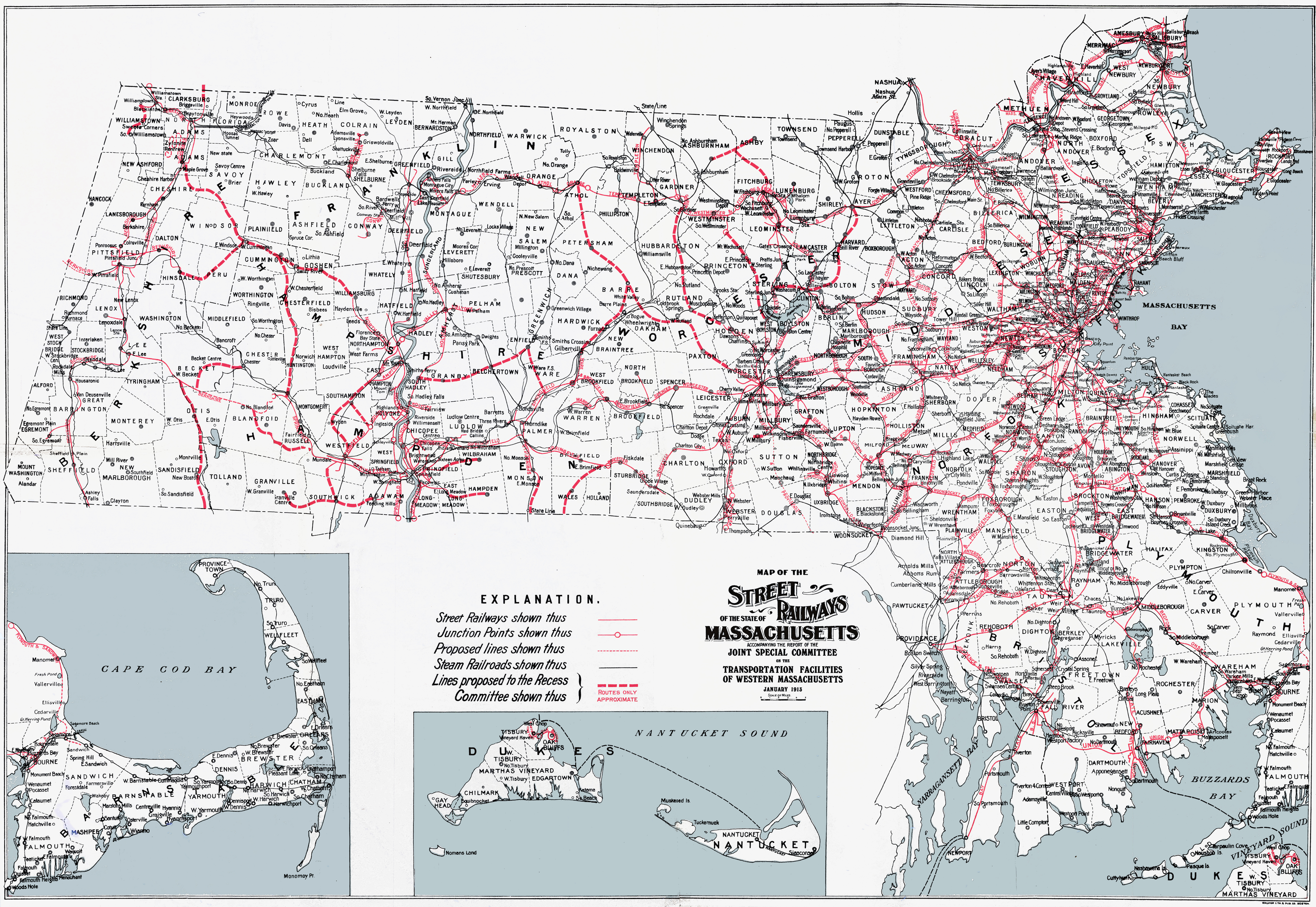 Map of the interurban systems as they existed, or were otherwise proposed, in Massachusetts prior to World War I. Note the density of street railways around urban centers like Boston, Worcester, Springfield, and Pittsfield, in contrast to the lack of railways in the present location of the Quabbin Reservoir and Cape Cod.